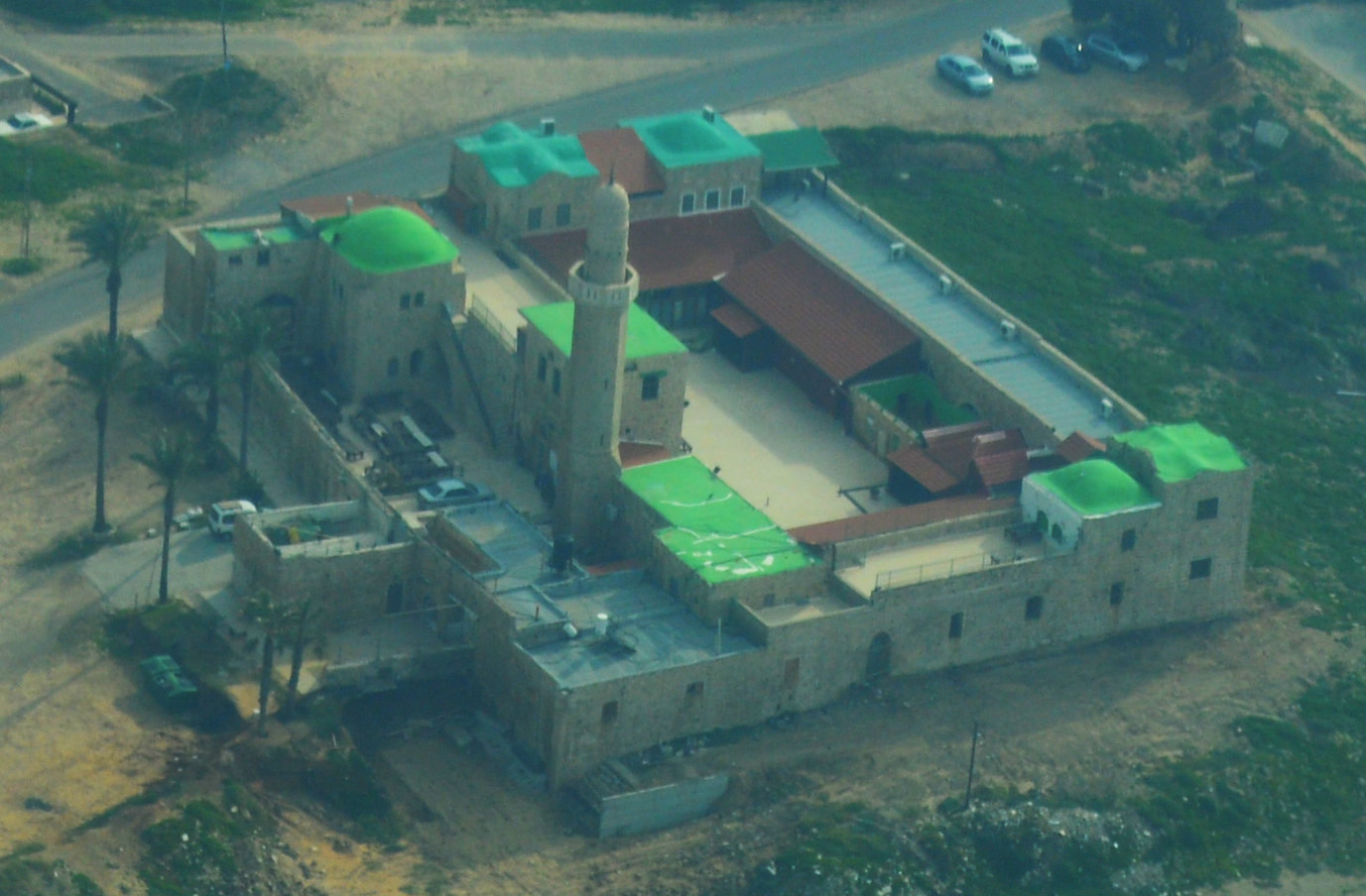 Sidna Ali Mosque Aerial View